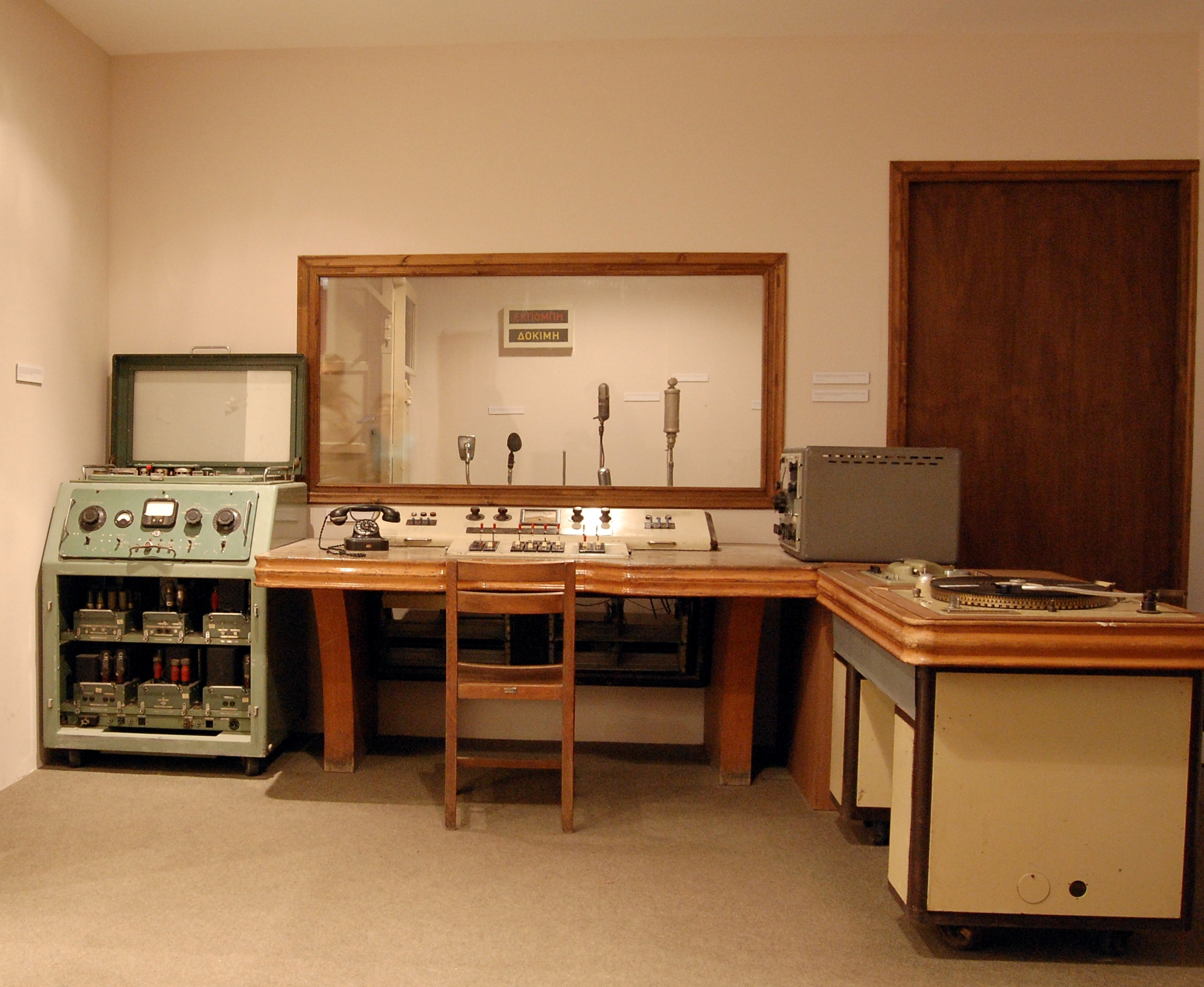 The first studios of the the National Radio Foundation of Greece.